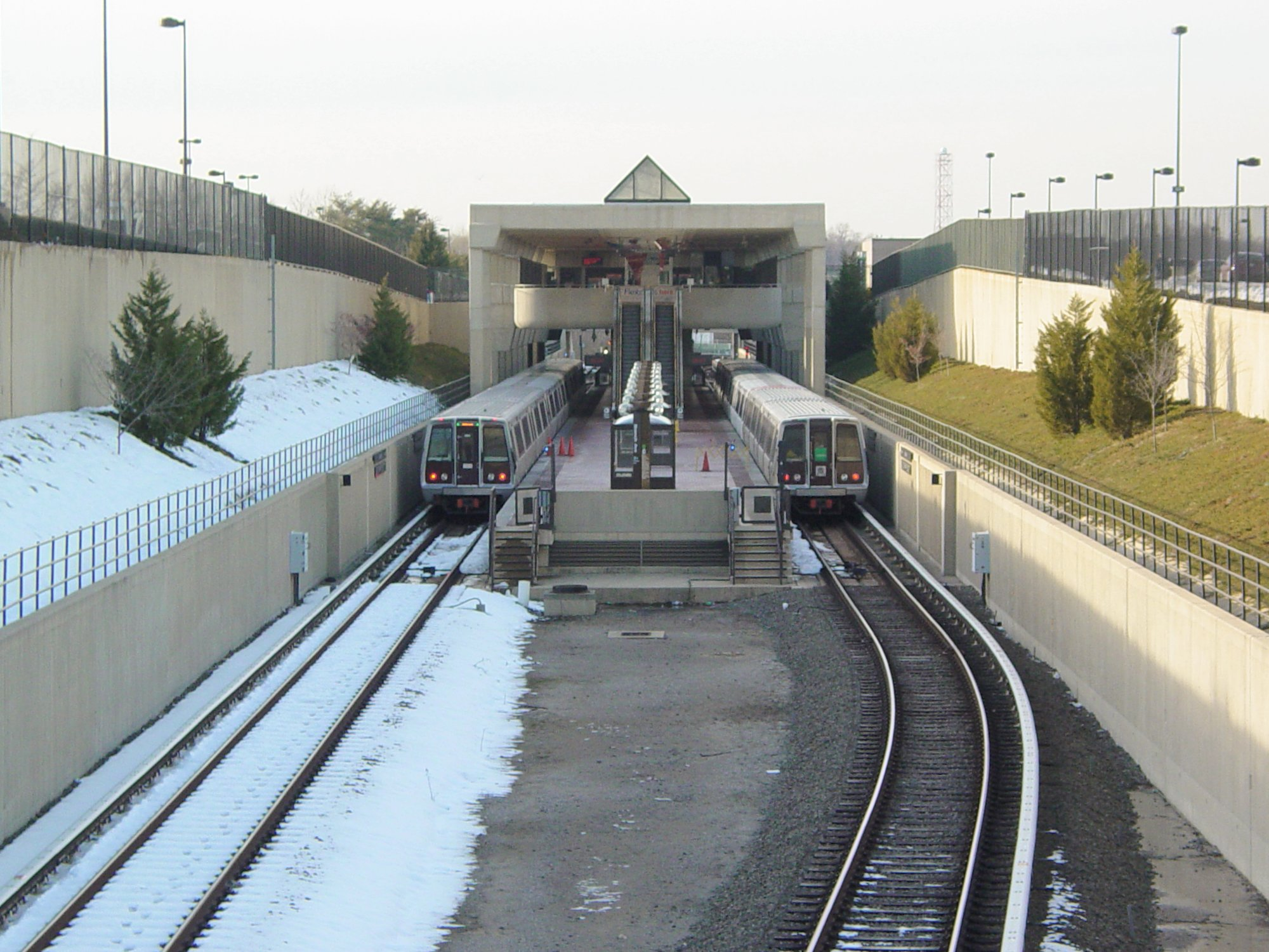 Branch Avenue station viewed from a bridge south of the station.